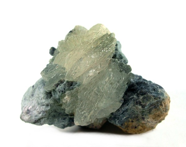 Brucite Locality: Wood's Chrome Mine (Wood's Mine), Texas, Little Britain Township, Lancaster County, Pennsylvania, USA (Locality at ) A sharply crystallized rosette, or spherical aggregate rather, of translucent brucite from this important East Coast locality. It was almost certainly collected during the mid to late 1800s heyday here. Fine miniatures of this material, that actually have some aesthetics, are VER rare and hard to get ahold of. I have had bigger pieces, pricier pieces, bigger crystals, but never such a nice showy specimen for the size. 4.2 x 2.9 x 2.8 cm